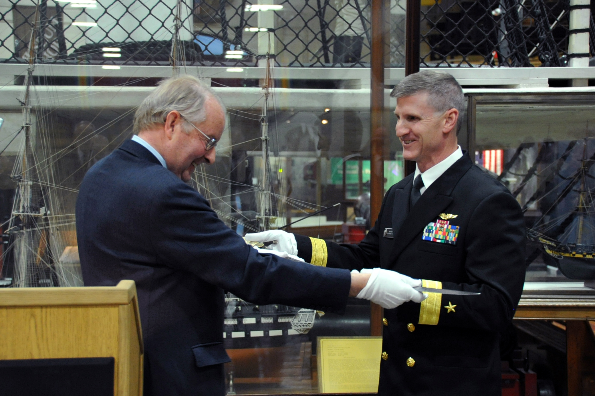 141020-A-IO170-052 WASHINGTON (Oct. 20, 2014) Francis Hamilton, descendant of British Army Gen. Robert Ross, hands Rear Adm. Mark Rich, commandant of Naval District Washington, the sword of Commodore Joshua Barney during a reception at the National Museum of the United States Navy at the Washington Navy Yard. Hamilton donated the sword to the United States Navy from his private collection during the reception the Museum hosted.